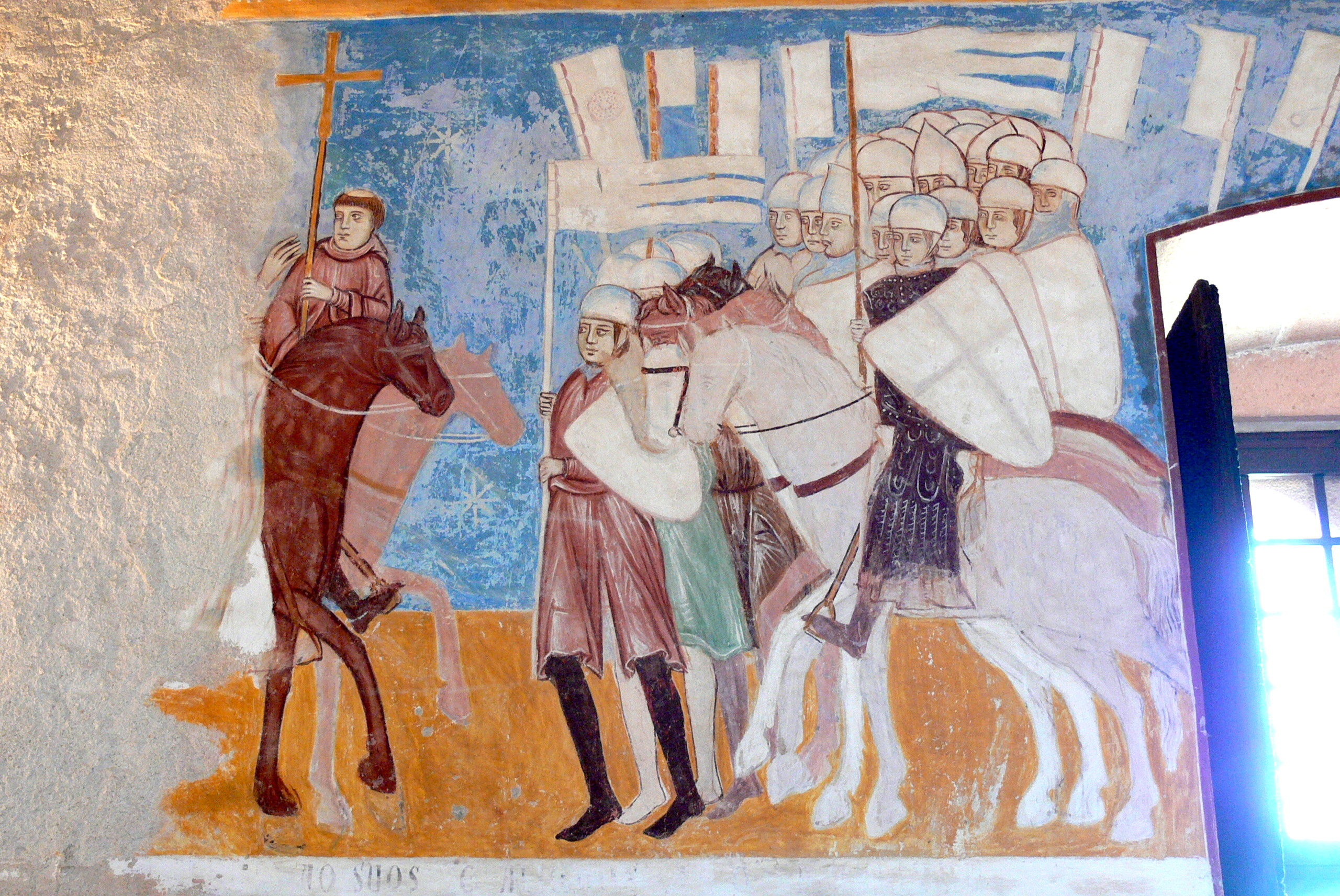 Angera castle ( Varese ). Hall of Justice - Fresco showing Ottone Visconti, archbishop of Milan, and his army in 1277.